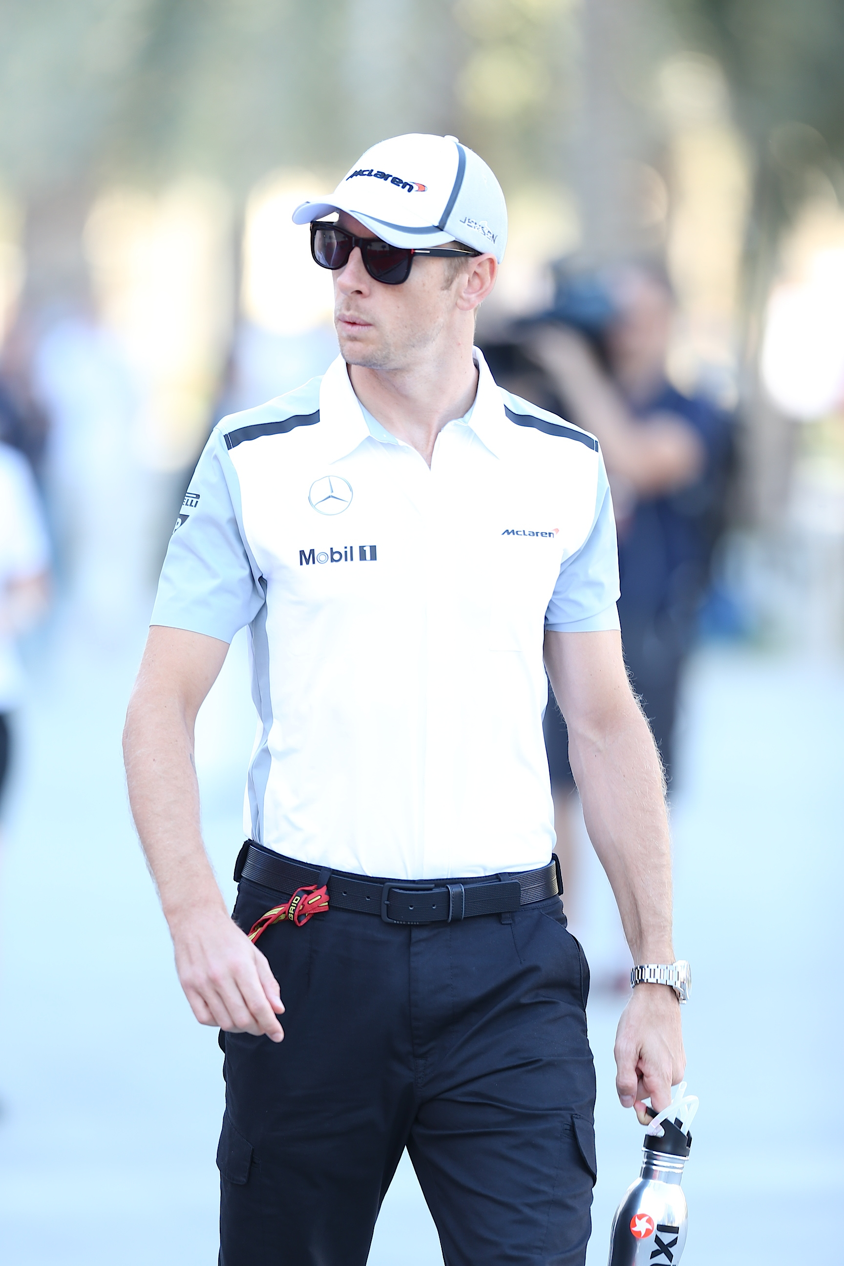 Kingdom of Bahrain